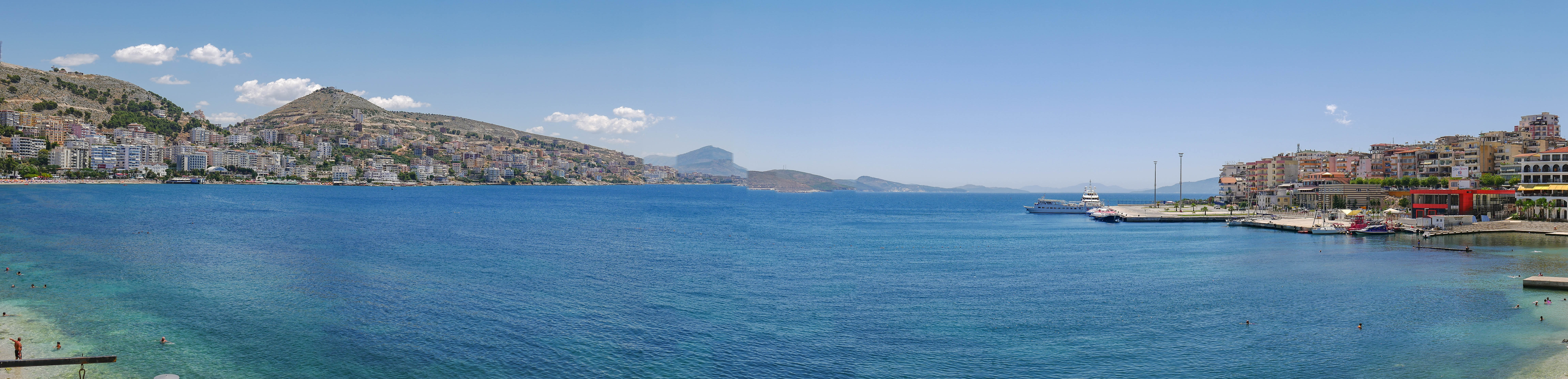 City of Saranda, Albania